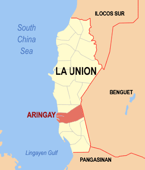 Map of La Union showing the location of Aringay